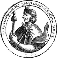 Portrait of Yawar Waqaq, detail of the frontispiece to the fifth Decade of Historia general de los hechos de los castellanos en las Islas y Tierra Firme del mar Océano que llaman Indias Occidentales by Antonio de Herrera